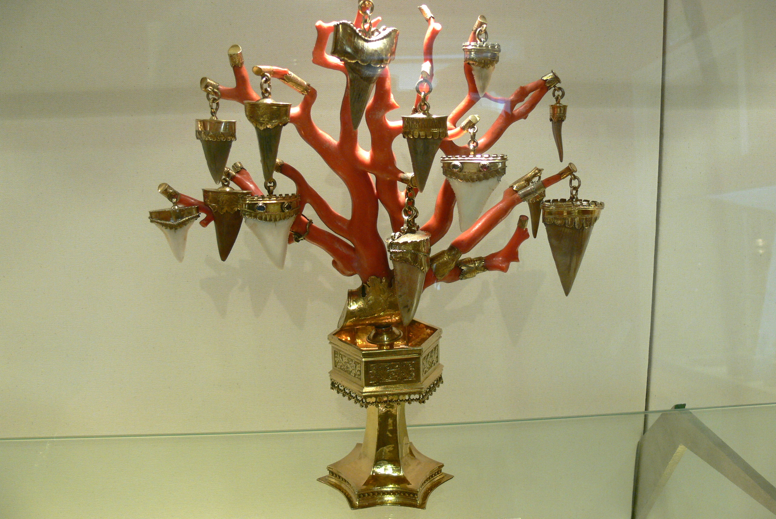 Vienna, Treasury of the German Order. So called "Natternzungenkredenz ( 15th/16th century ) made of fossil shark teeth and red coral ( Inv.-Nr. K-037 )